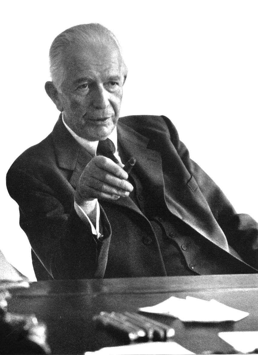 Assar Gabrielsson (1891-1962) — Swedish businessman and industrialist (c. 1960). With Gustav Larson, co-founder of Volvo AB in the 1920s, in Göthenburg, Sweden.